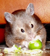 Sable short-haired Syrian Hamster.